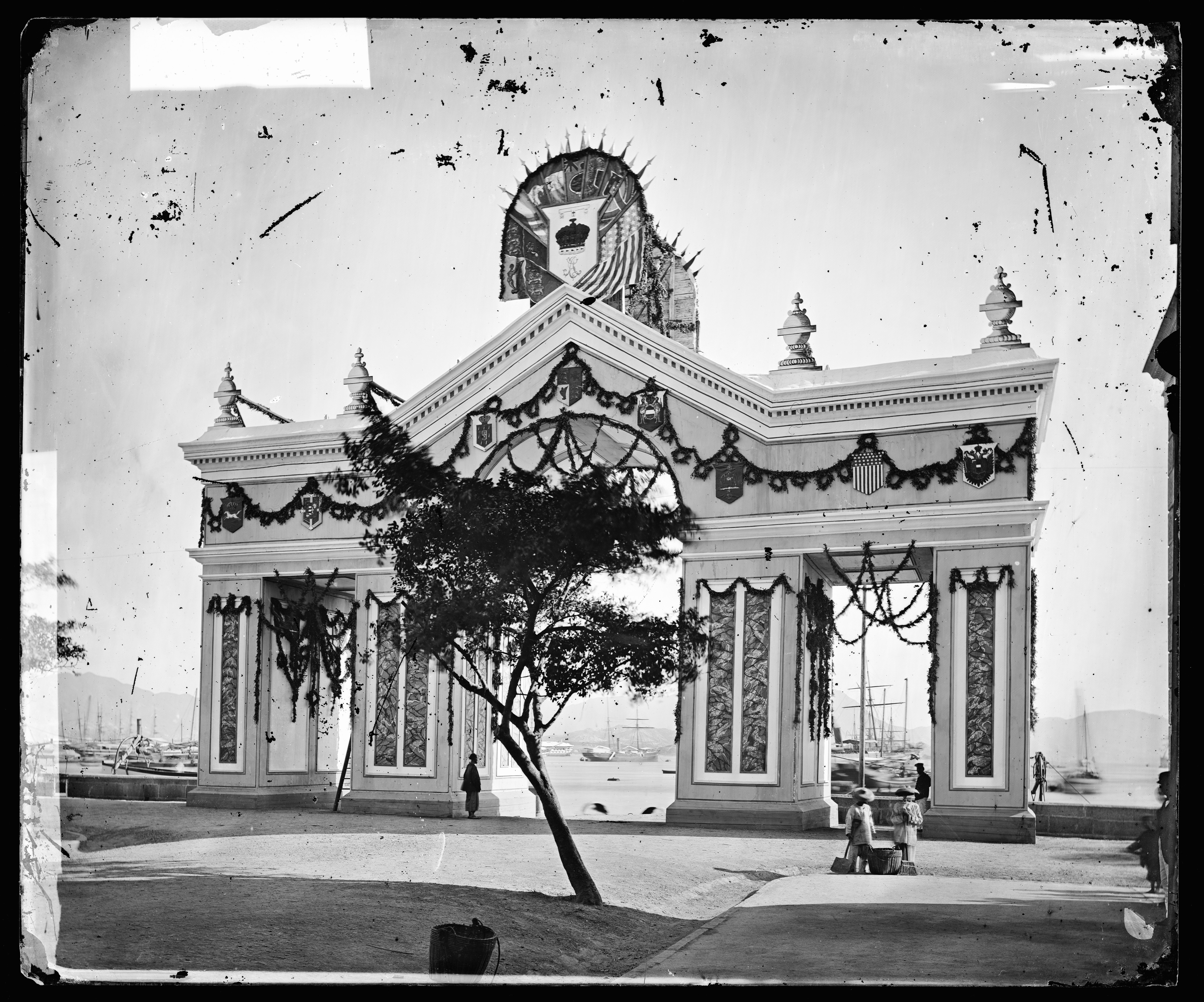 Triumphal arch, Peddar's Wharf, Hong Kong. Photograph by John Thomson, ca. 1869. The arch was erected for H.R.H. the Duke of Edinburgh's visit. Tree centre foreground, harbour in background through arch. Iconographic Collections Keywords: J. Thomson